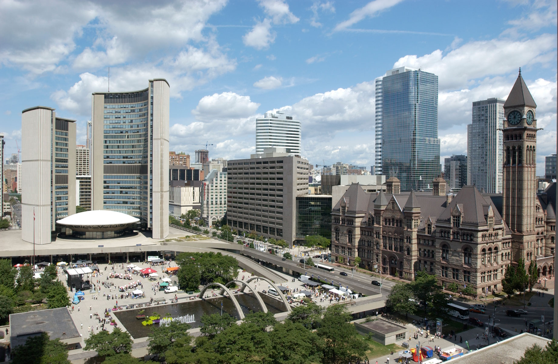 View, looking northeast, of Toronto's new and old city halls, as well as the Bell Trinity, 250 Yonge and 1 Dundas West office buildings. Toronto, Ontario, Canada.